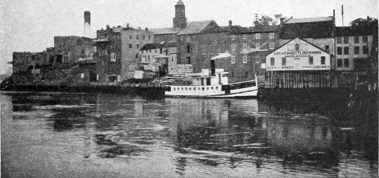 Waterfront - Portsmouth, New Hampshire